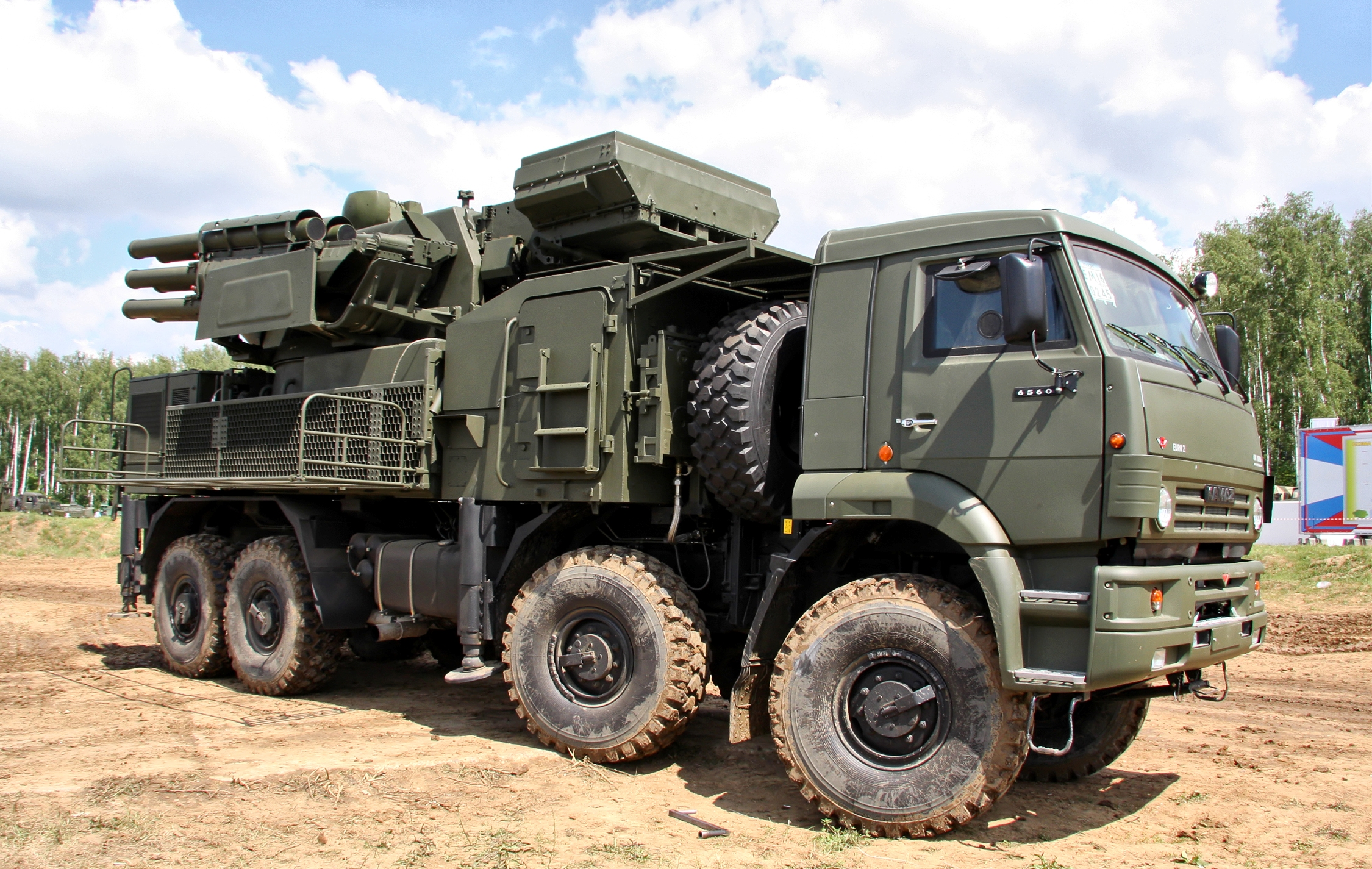 96K6 Pantsir-S1 on KAMAZ-6560 chassis during a demonstration at Bronnitsy test rage.